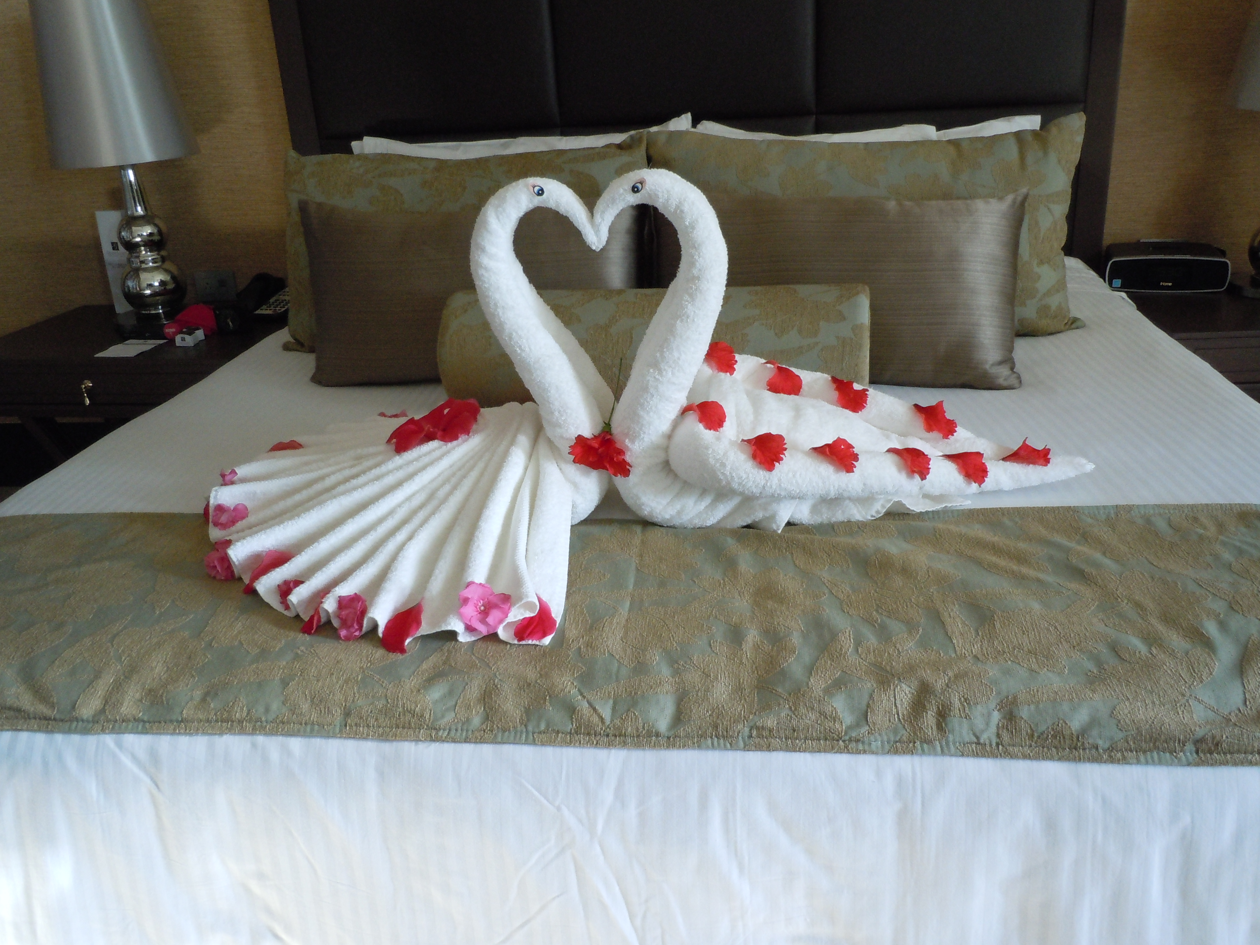 Peacock and peahen towel animals from Grand Luxxe in Riviera Maya.